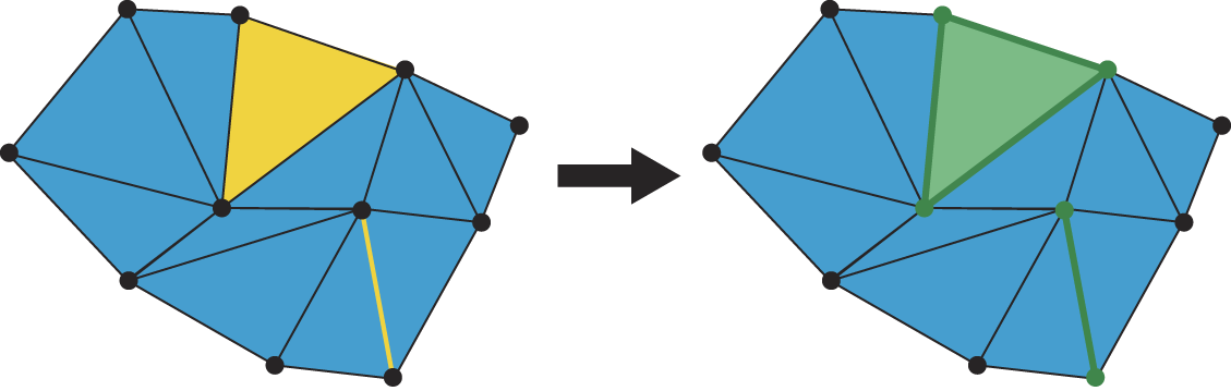 Illustration of a "closure" in the context of simplicial complexes. As the author of this image, I hereby release it into the public domain.